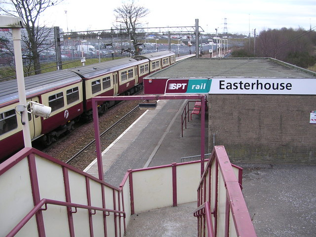 Easterhouse railway station, Glasgow, Scotland